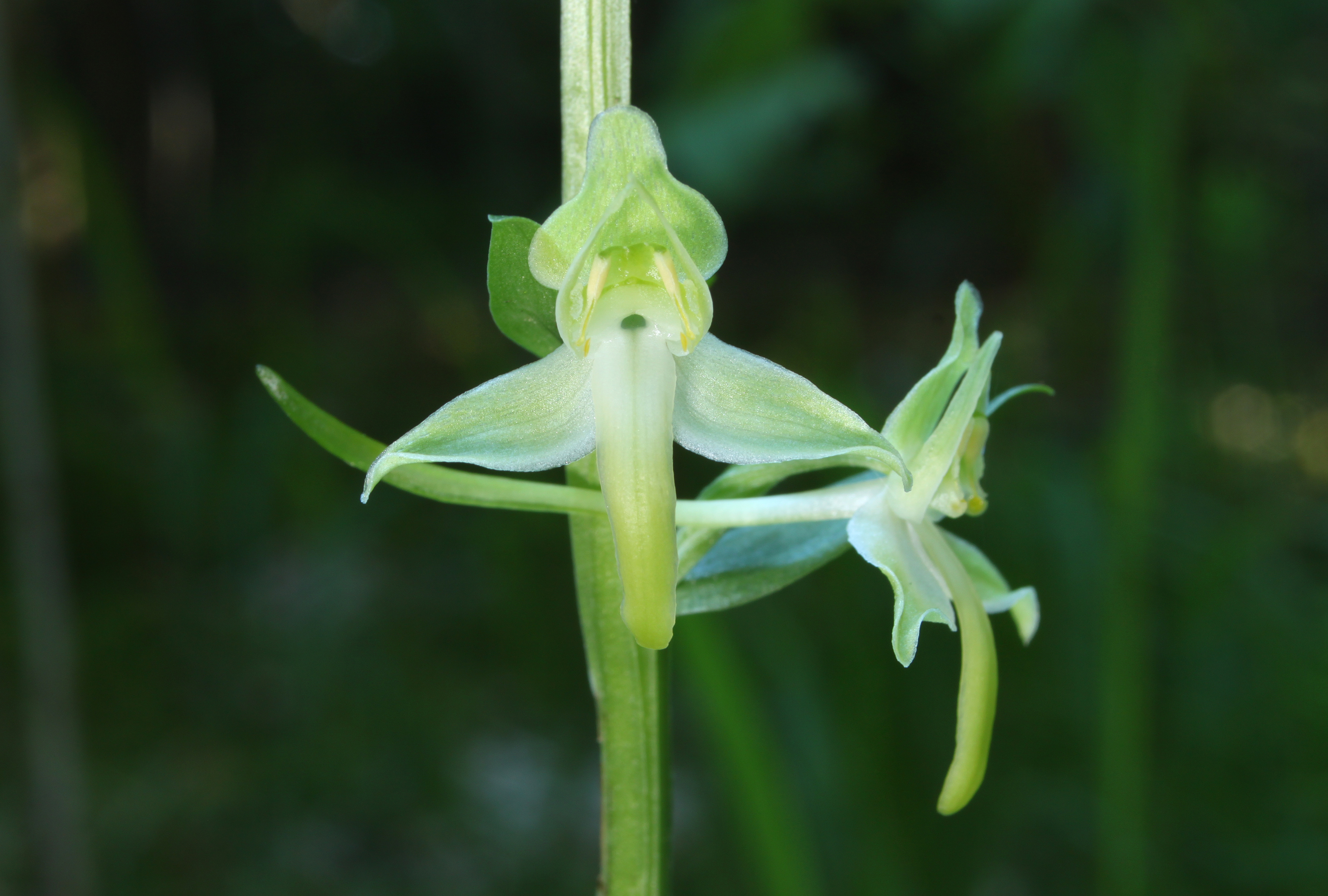 Greater Butterfly-orchid, Platanthera chlorantha, Family: Orchidaceae, Location: Germany, Blaubeuren, Pappelau